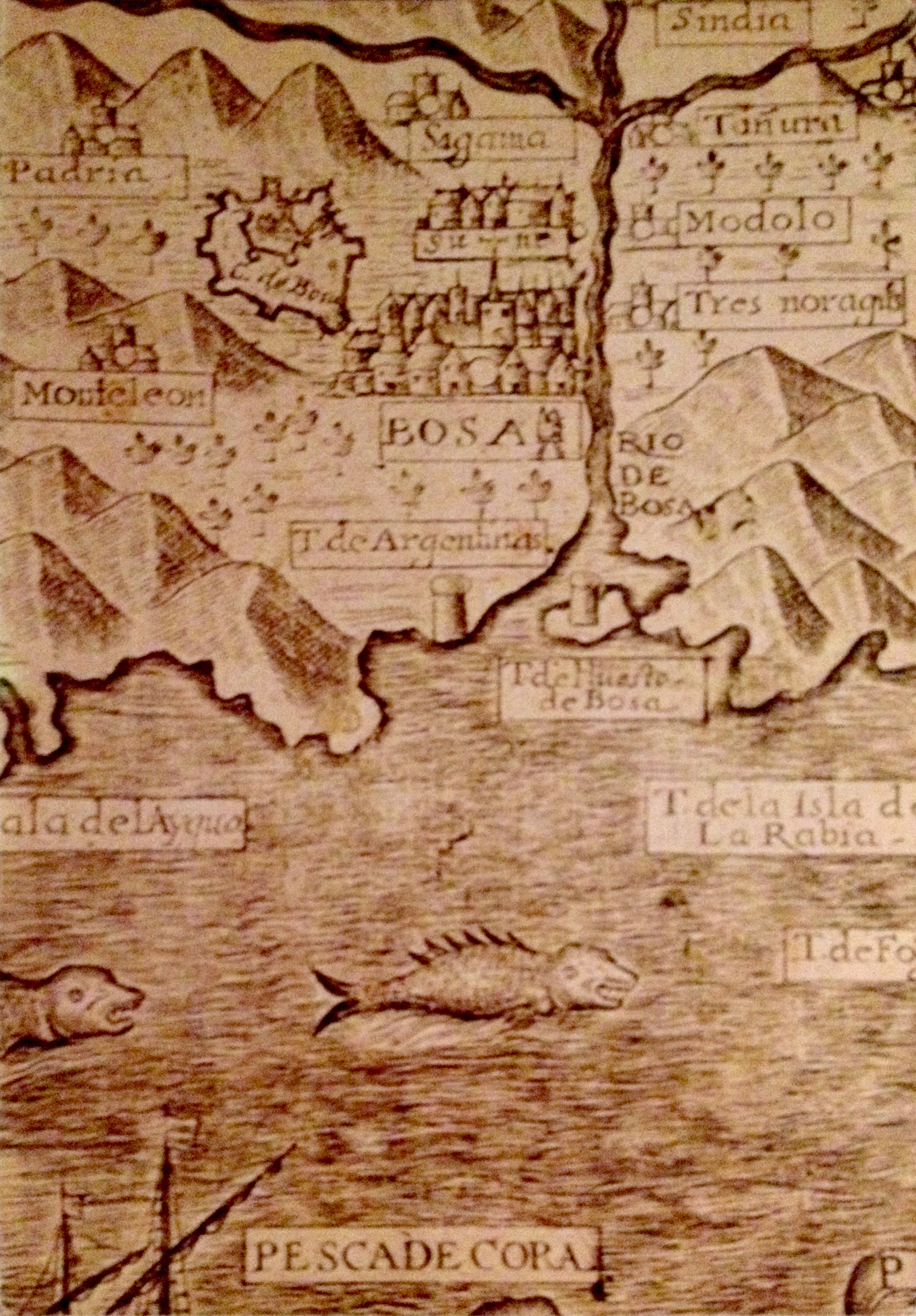 Bosa in the map "Descripción de la isla y reino de Sardeña" (XVII century)